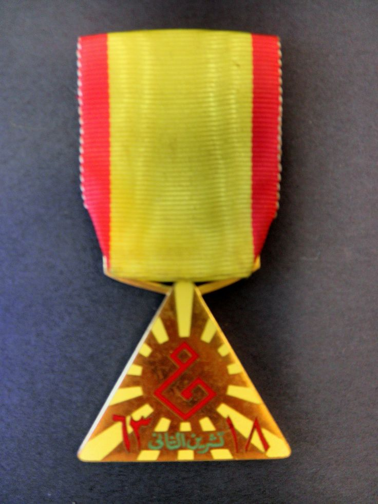 من الانواط العسكرية العراقية التي صدرت عام 1963 ومنحت لضباط الجيش العراقي المساهمين في حركة 18 تشرين 1963 ضد عناصر ومليشيات الحرس القومي البعثية.